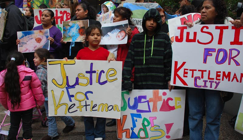 Local community members protest the Kettleman Hills Waste Facility.